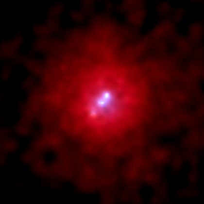 3C295 (Cl 1409+524) is one of the most distant galaxy clusters observed by X-ray telescopes. The cluster is filled with a vast cloud of fifty million degree gas that radiates strongly in X rays. It has a redshift of 0.461, which means that we see the galaxy cluster as it was 4.7 billion years ago. 3C295 was first discovered as a bright source of radio waves. The source of the radio emission was found to be a giant elliptical galaxy located in the center of the cluster of galaxies. Chandra discovered that this central galaxy is a strong, complex source of X rays.